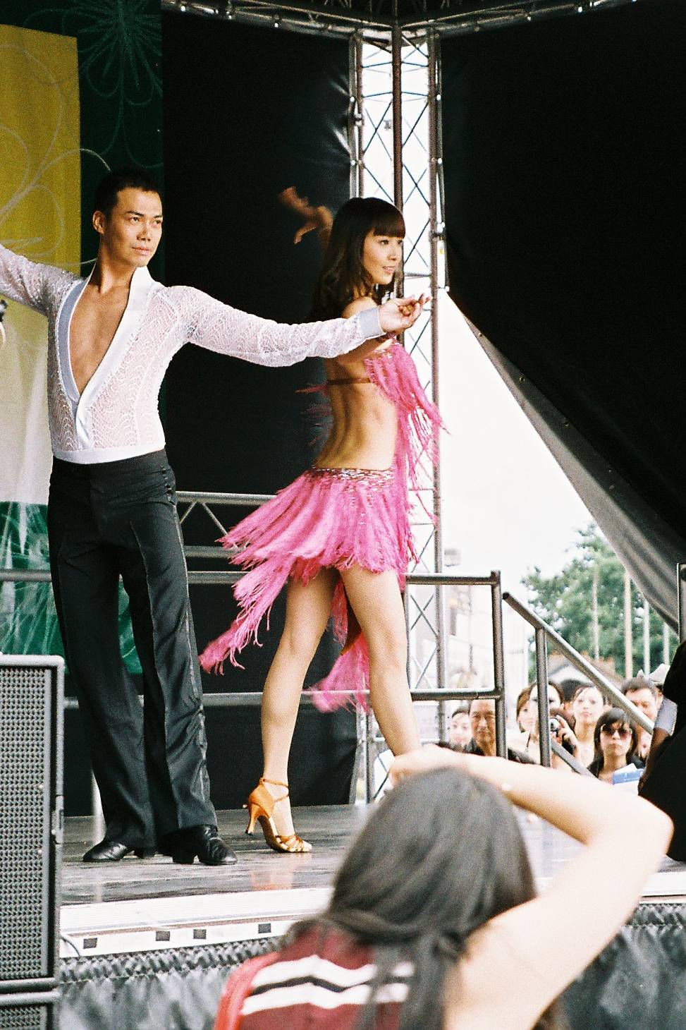 Michael Tse and Fala Chen dancing at Happy Family Gala 2008. Taken in car park opposite main entrance of London's Brent Cross shopping centre.